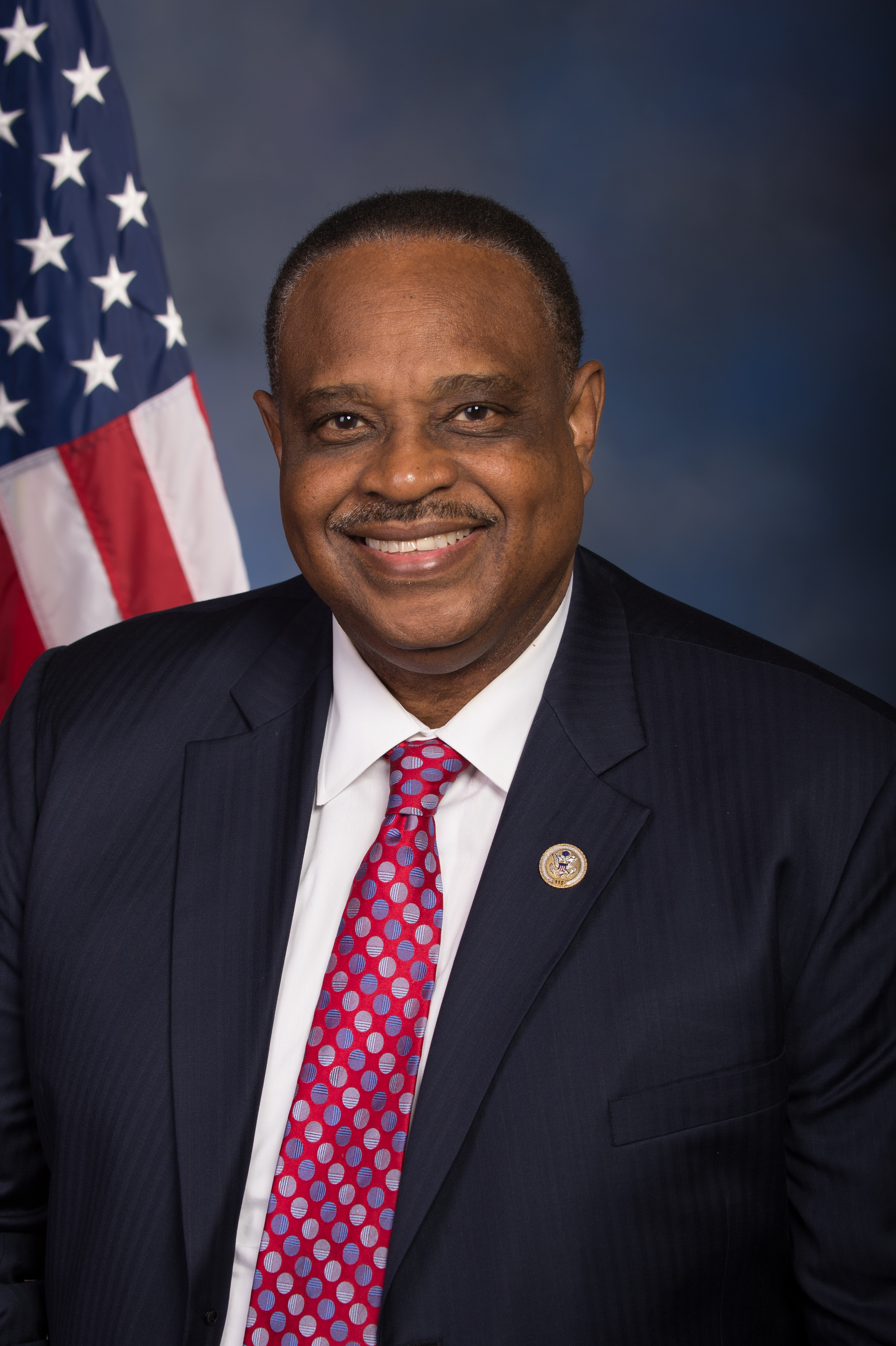 U.S. Representative Al Lawson